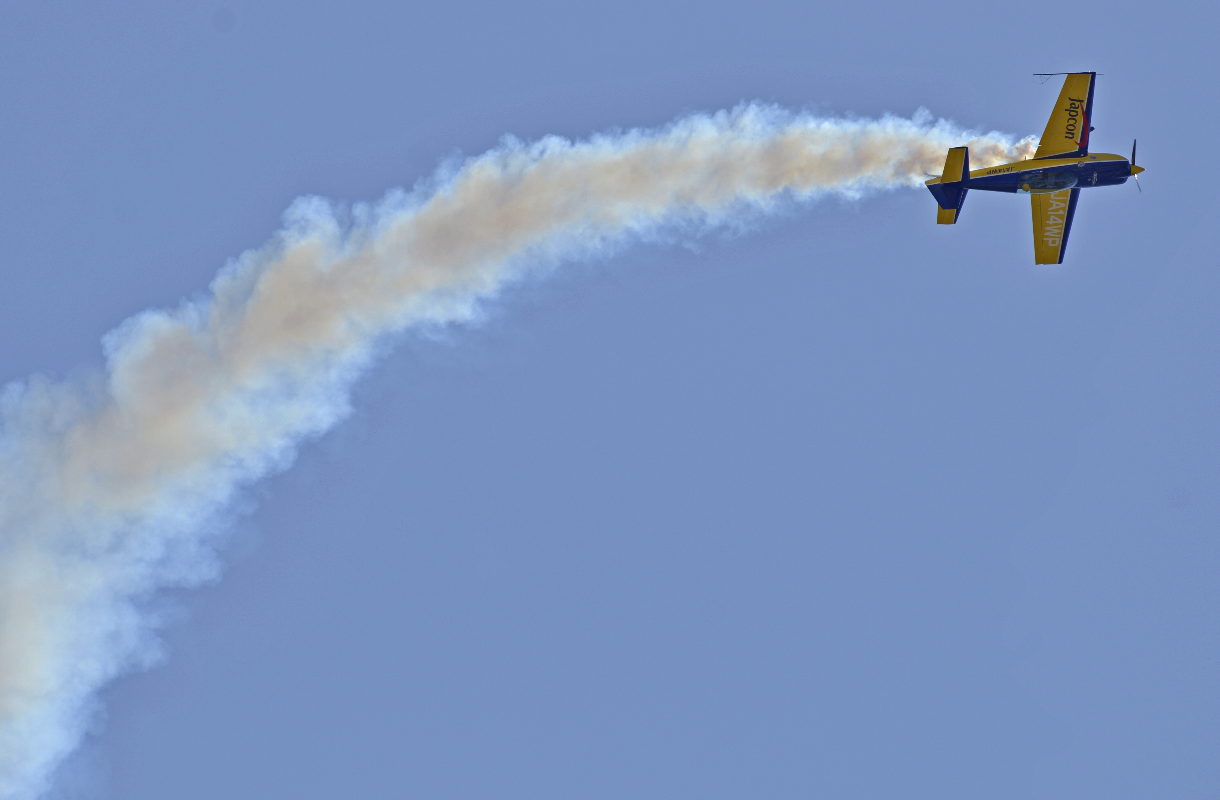 A Lufthansa Airbus A-320 performs during the 2016 Friendship Dayat Marine Corps Air Station Iwakuni, Japan, May 5, 2016. This year was the 40th Annual Friendship Day, offering a culturally enriching experience that displays the mutual support that the U.S. and Japan share. (U.S. Air Force photo by Senior Airman David Owsianka/Released) Unit: 374th Airlift Wing DVIDS Tags: parachute; service members; Japan; U.S.; MCAS Iwakuni; Air Show; aircraft; Friendship Day; aerial demonstration. static display; Yokota. Military